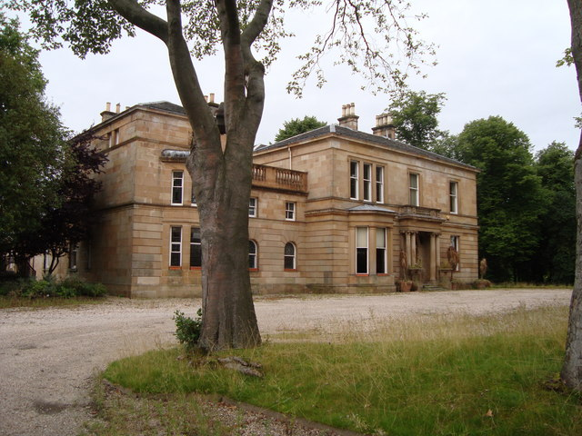 Craigie Hall, Dumbreck, Glasgow